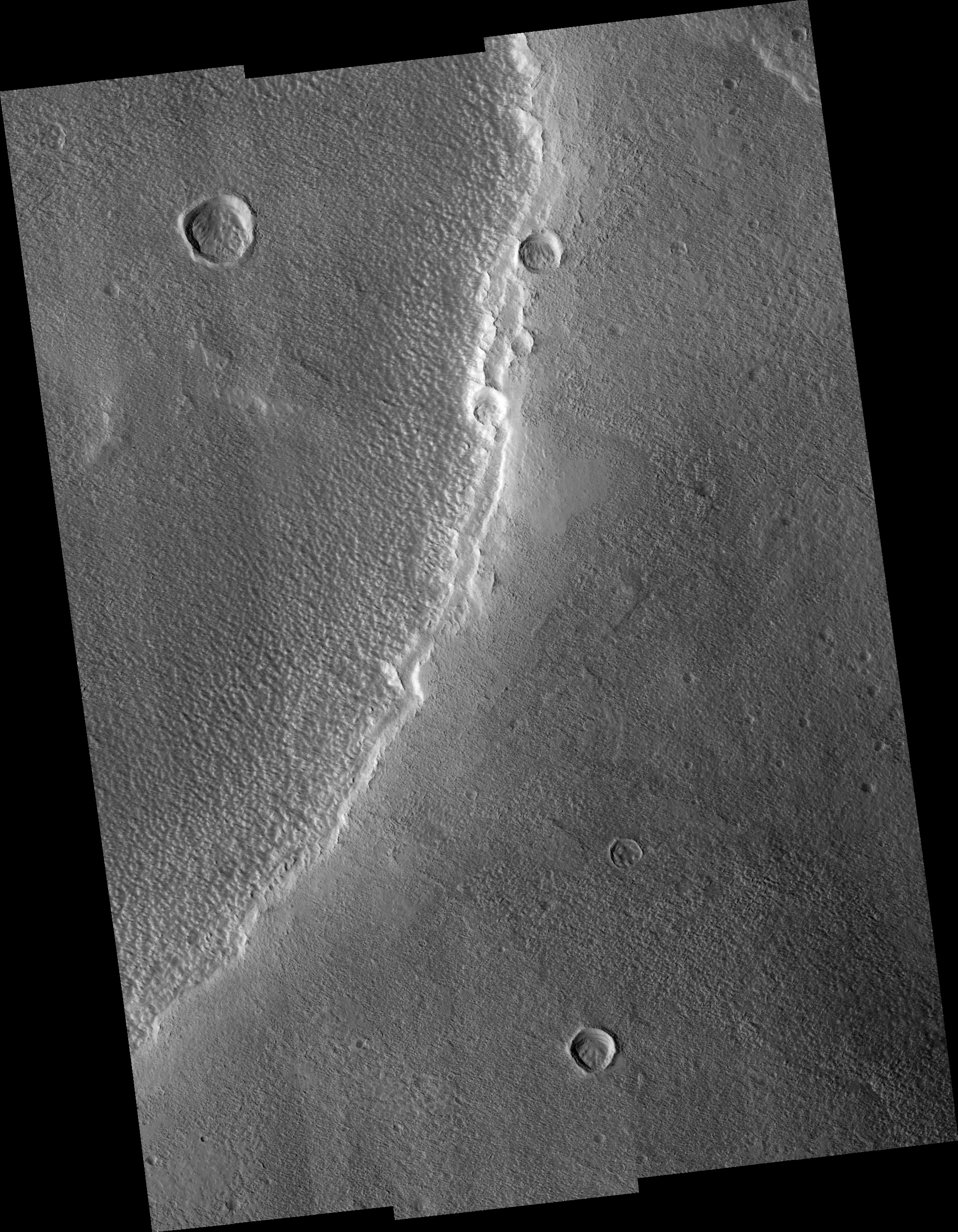 Original Caption HiRISE image of Alba Patera. Source: [1] (higher resolution available). The original caption was: “This HiRISE image shows a small portion of the rim of the caldera at the top of the volcano Alba Patera. This volcano has shallower slopes than most of the other large volcanoes on Mars. Unfortunately, this image is not able to help us understand what is unique about Alba Patera because of the thick dust cover. Instead it shows that the dust has been carved into streamlined shapes by the wind, cut by small landslides. Interestingly, there are some isolated patches that appear smooth and undisturbed by the wind. Image PSP_001510_2195 was taken by the High Resolution Imaging Science Experiment (HiRISE) camera onboard the Mars Reconnaissance Orbiter spacecraft on November 22, 2006. The complete image is centered at 39.3 degrees latitude, 251.5 degrees East longitude. The range to the target site was 285.7 km (178.6 miles). At this distance the image scale ranges from 57.2 cm/pixel (with 2 x 2 binning) to 114.3 cm/pixel (with 4 x 4 binning). The image shown here has been map-projected to 50 cm/pixel and north is up. The image was taken at a local Mars time of 3:23 PM and the scene is illuminated from the west with a solar incidence angle of 50 degrees, thus the sun was about 40 degrees above the horizon. At a solar longitude of 139.0 degrees, the season on Mars is Northern Summer. ”